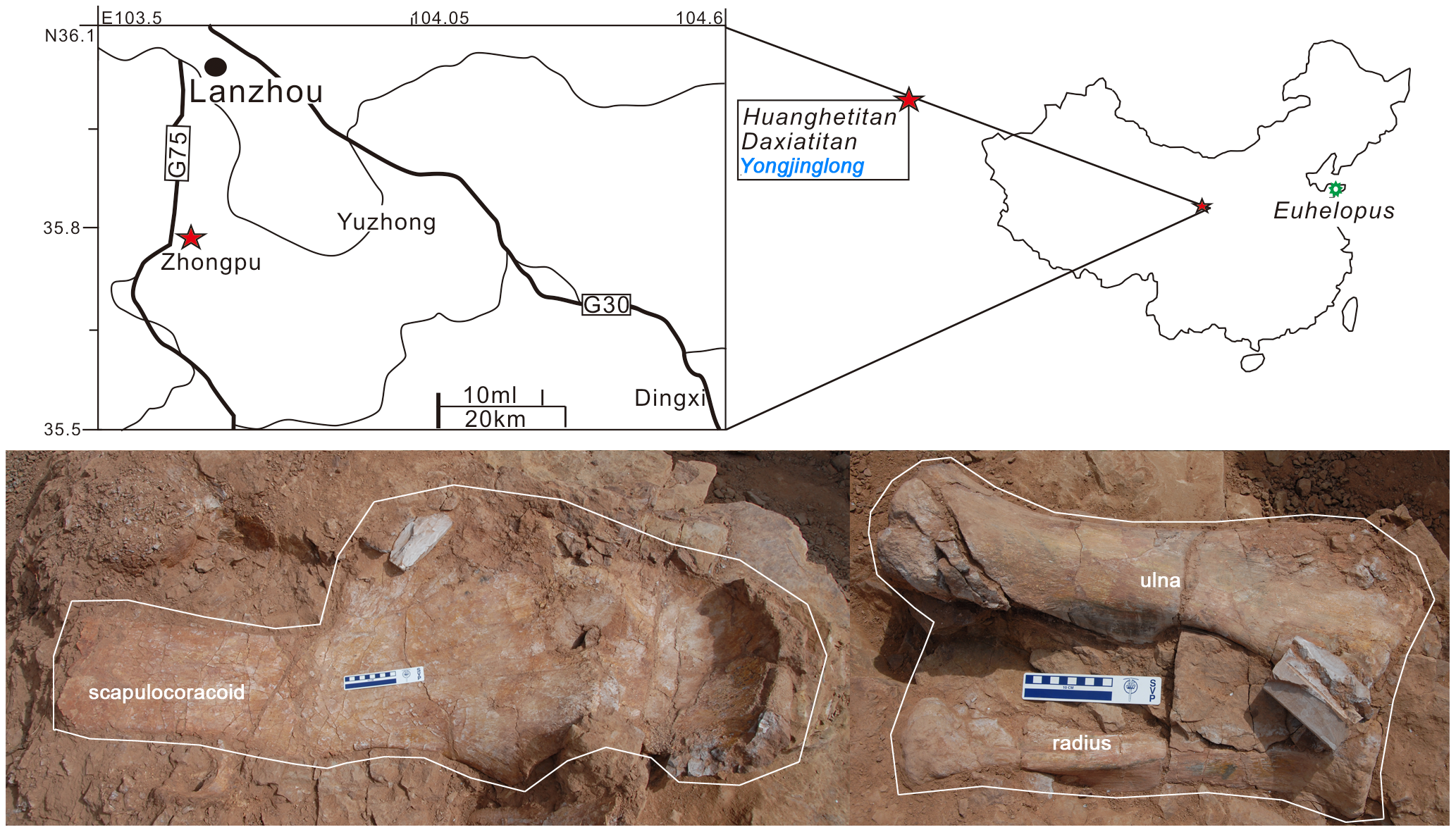 Fossil locations and quarry map of Yongjinglong datangi. In the upper picture the red star presents the fossil locations of Yongjinglong, Daxiatitan and Huanghetitan and also the green star shows the excavation location of Euhelopus. In the lower picture the exposed fossils are marked.